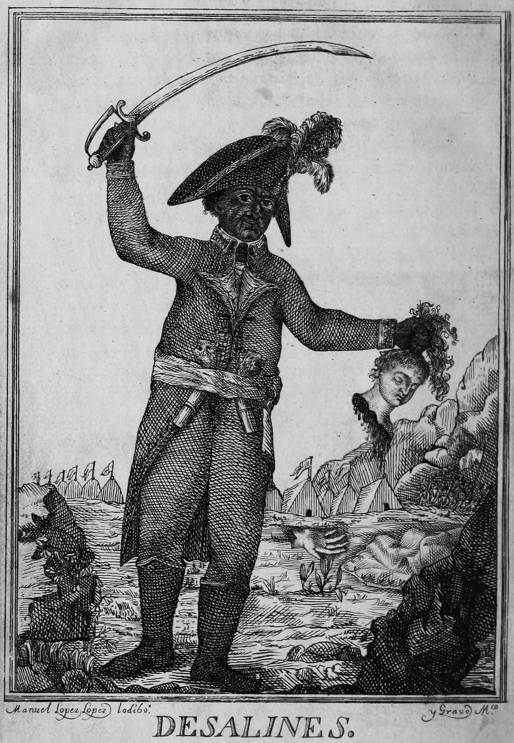 Entitled simply "Desalines", it depicts the general, sword raised in one arm, while the other holds a severed head of a white woman